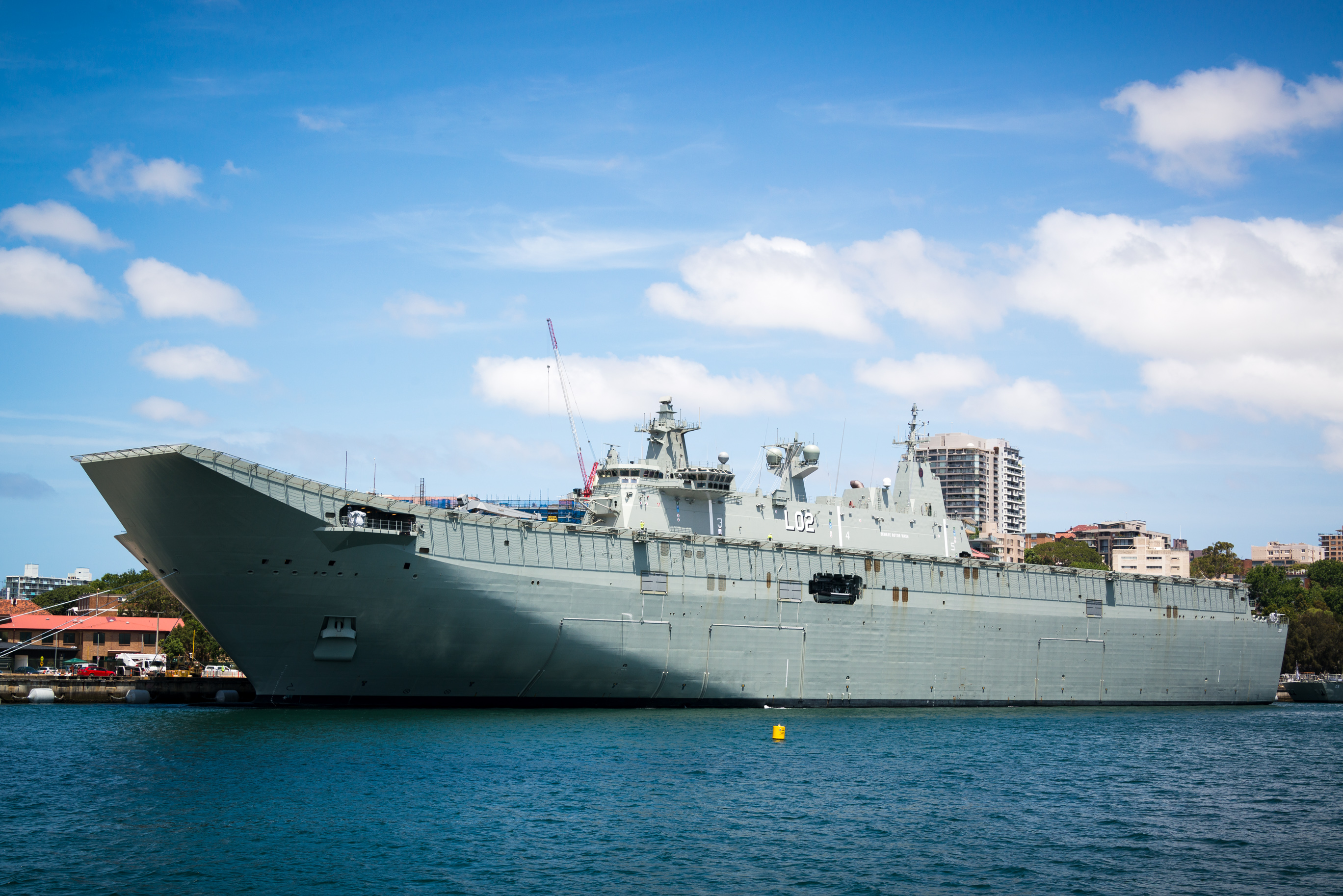 HMAS Canberra (LHD 02) at berth prior to commissioning